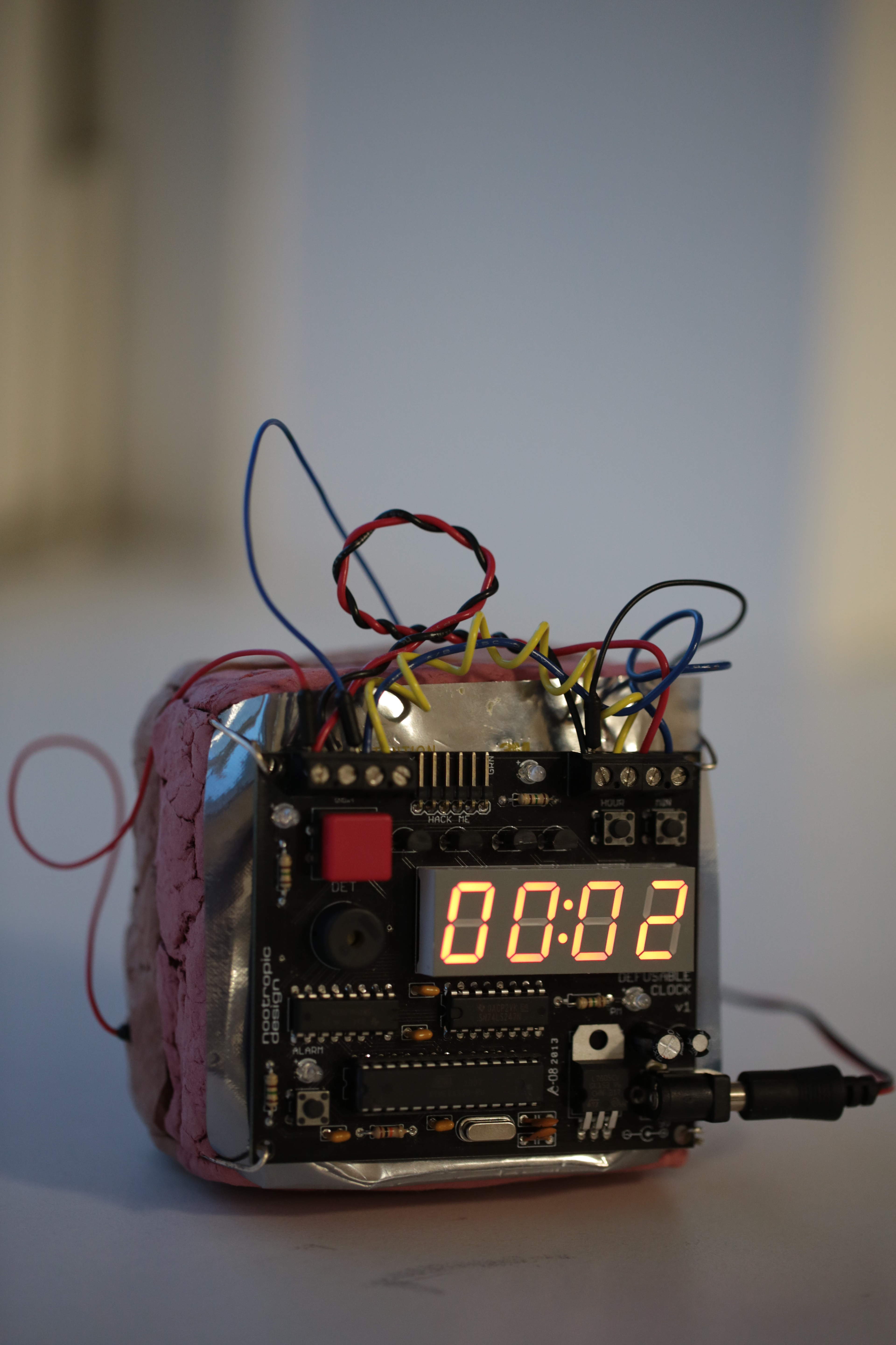 A bomb with a defusable clock from nootropic design. The design from nootropic is a nice way to teach electronic using an improvised explosive device ;-)